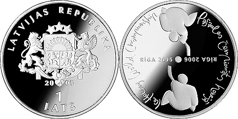 Ice Hockey World Championship 2006 - 1 Lats (2005) Weight: 31.47 g; diameter: 38.61 mm Metal: silver, fineness .925; quality: proof Artists: Artis Rutks (graphic design), Ligita Franckevica (plaster model) Obverse: The obverse of the coin features the large coat of arms of the Republic of Latvia in the central field, with the year 2005 beneath it. The inscription LATVIJAS REPUBLIKA is arranged in a semicircle above the central motif. The numeral 1 with a semi-circled inscription LATS below are placed at the lower part of the coin. Reverse: A puck is placed in the central field of the reverse, with two horizontal inscriptions RIGA 2006 on either side. Of the two views of this inscription, the one on the right is presented in inverted lettering. The top and the bottom of the reverse feature images of two hockey players viewed from above. The inscriptions Pasaules cempionats hokeja and Ice Hockey World Championship, each arranged in a semicircle, are on both sides of the central motif. Edge: Three inscriptions LATVIJA, separated by rhombic dots.